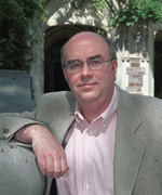 Warren at Princeton, circa 2002